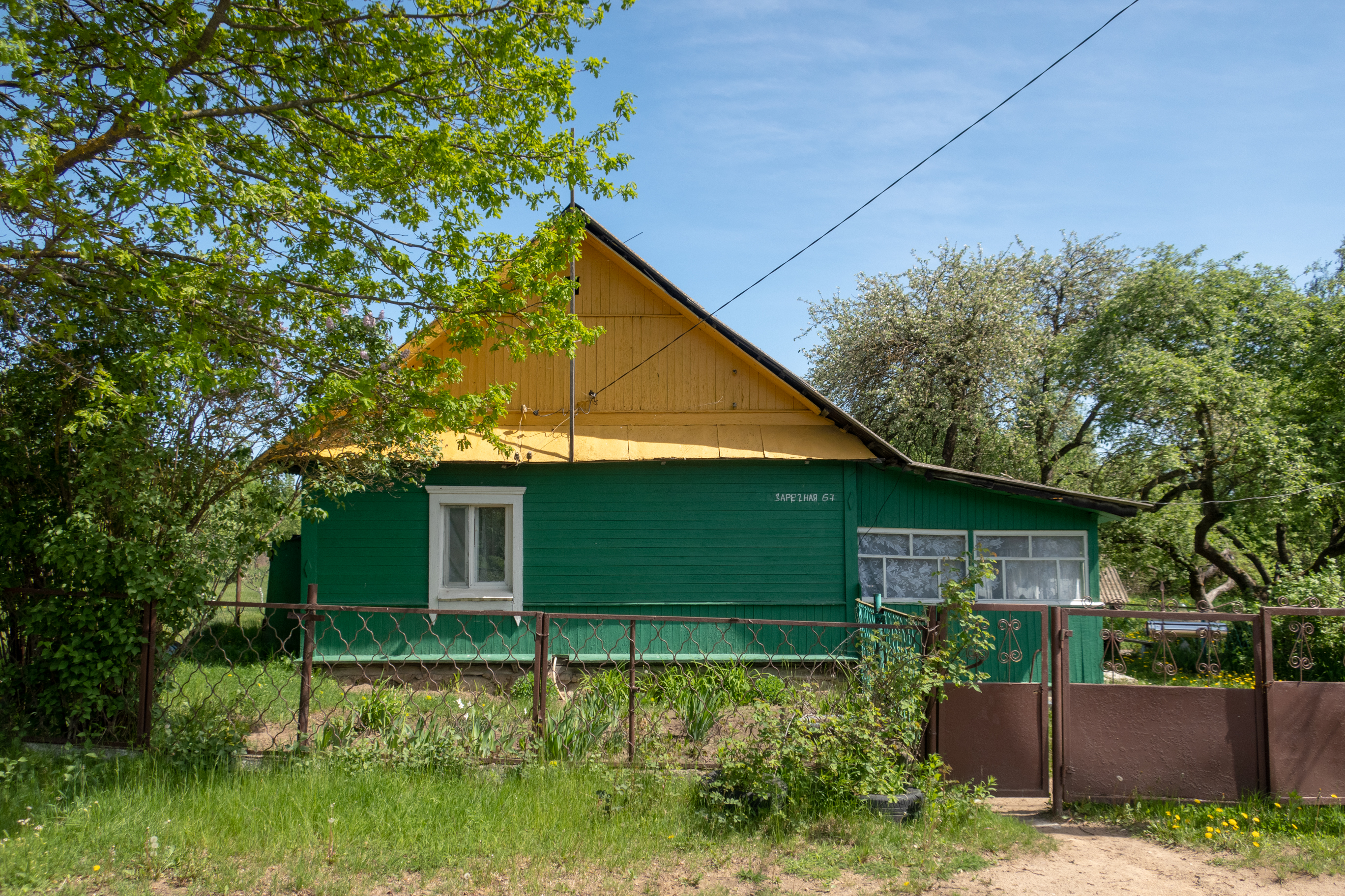 Maly Trascianiec village. Minsk district, Belarus